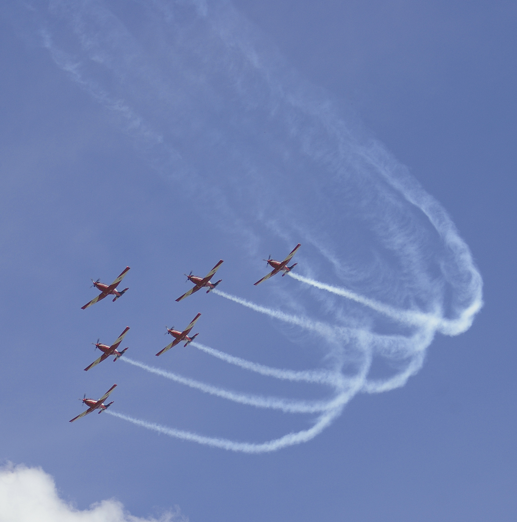 Roulettes flying in formation at the RAAF Base Wagga open day.